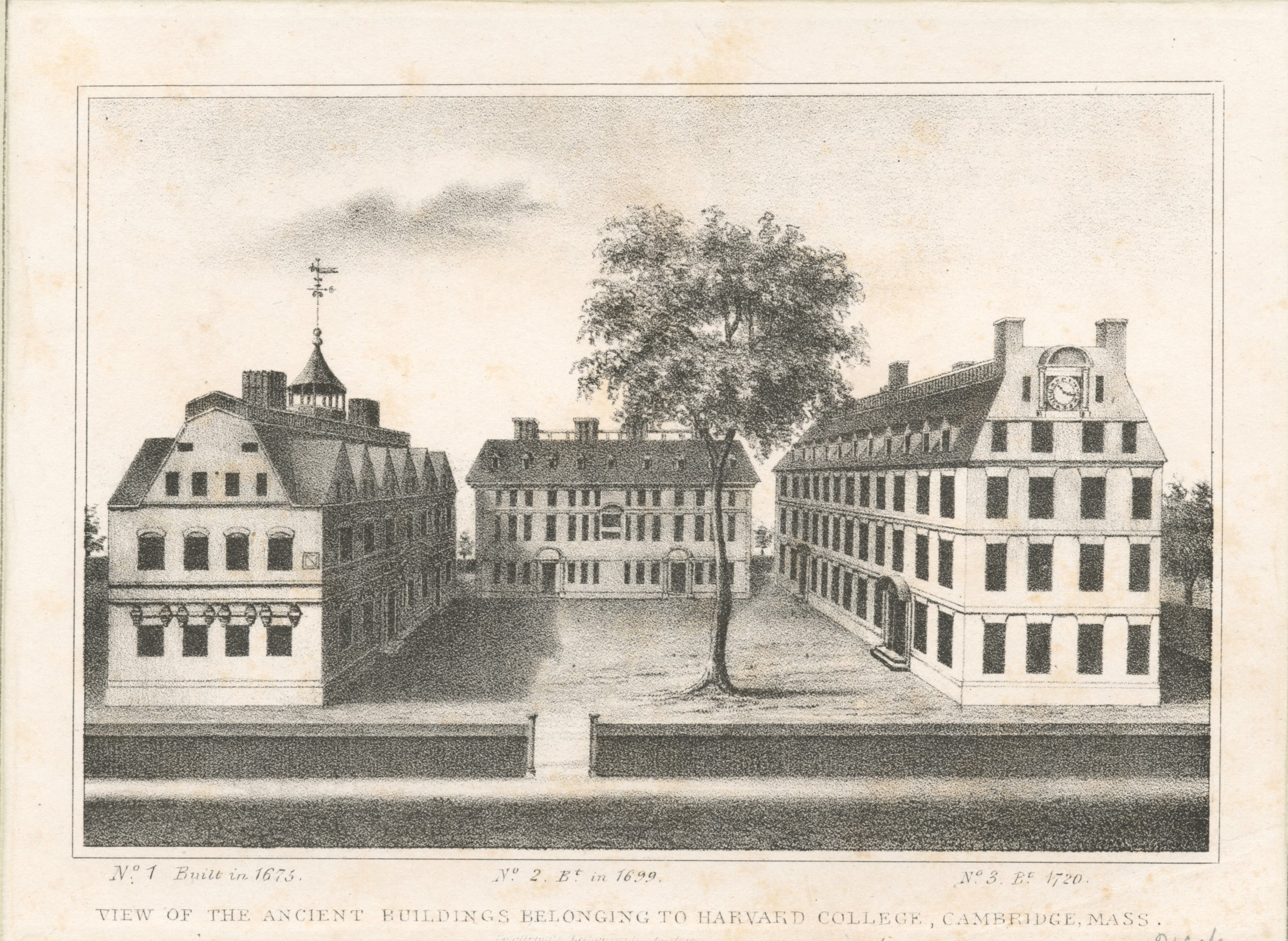 Volume numbers given here refer to the original volume numbers of the publication, not of Lossing's publication. Printmakers include H.B. Hall, S. Hollyer, James Smillie. Title from title page of extra-illustrated volume. EM5206